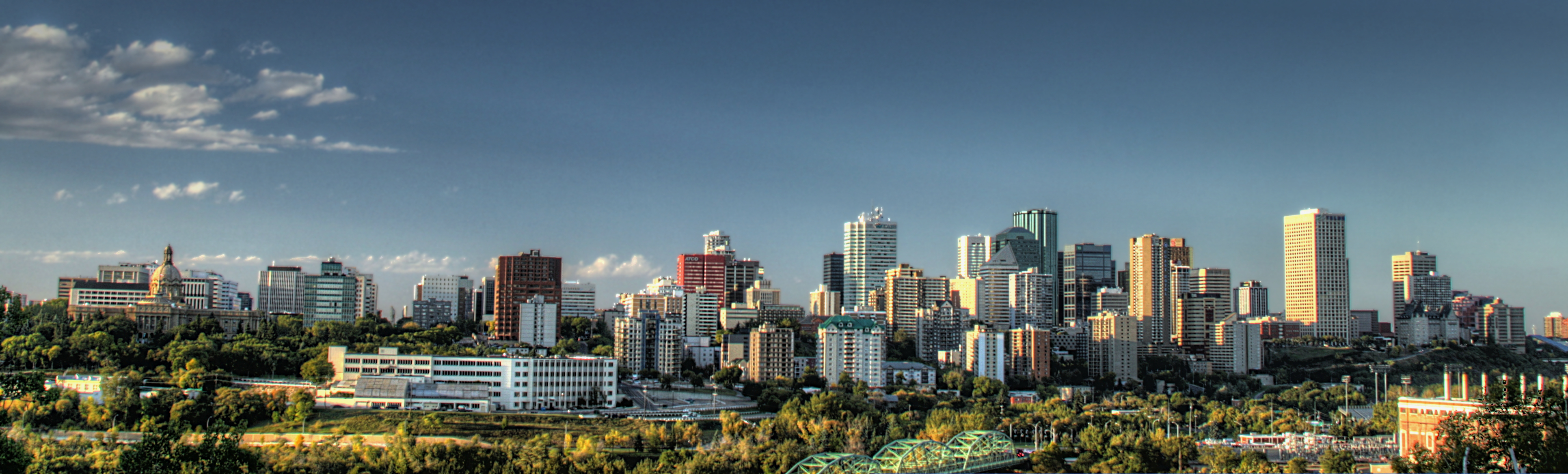 The downtown skyline, Edmonton, Alberta, Canada.